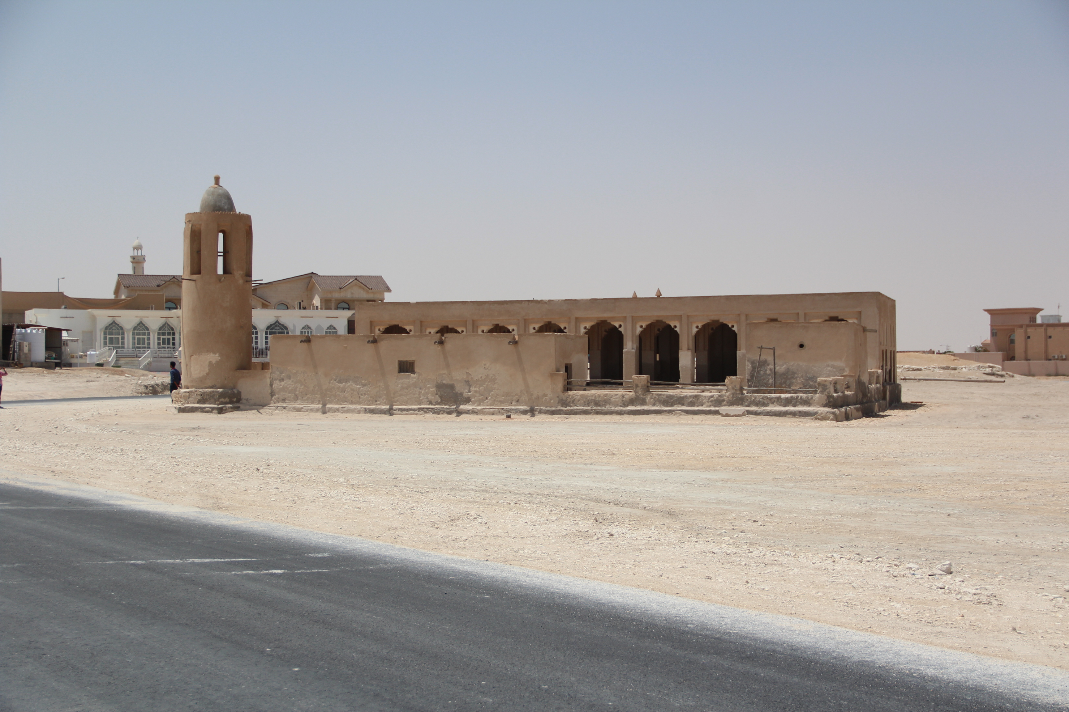 Close-up of the Historic Al Thakhira Mosque in Qatar in 2012.